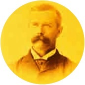 Mr Byron Brenan, C.M.G. (1847 - 1927), British Consul General in Shanghai (1898 - 1901)